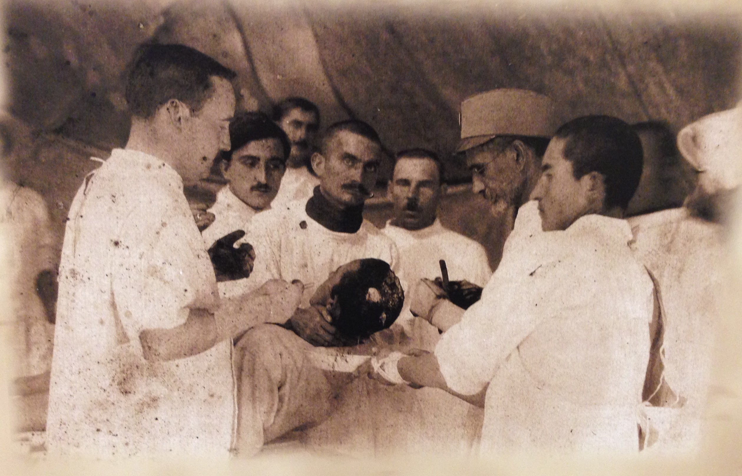 Dr Mihailo Petrović (wearing a Serbian national hat ), during surgery in the First Field Surgical Hospital of Secomd Army in Dragomanci (1916-1918). Srpski (latinica): Dr Mihailo Petrović (sa šajkačom na glavi) za vreme operacije u Prvoj hirurškoj poljskoj bolnici II Armije u Dragomancma kod Bitolja (1916-1918)